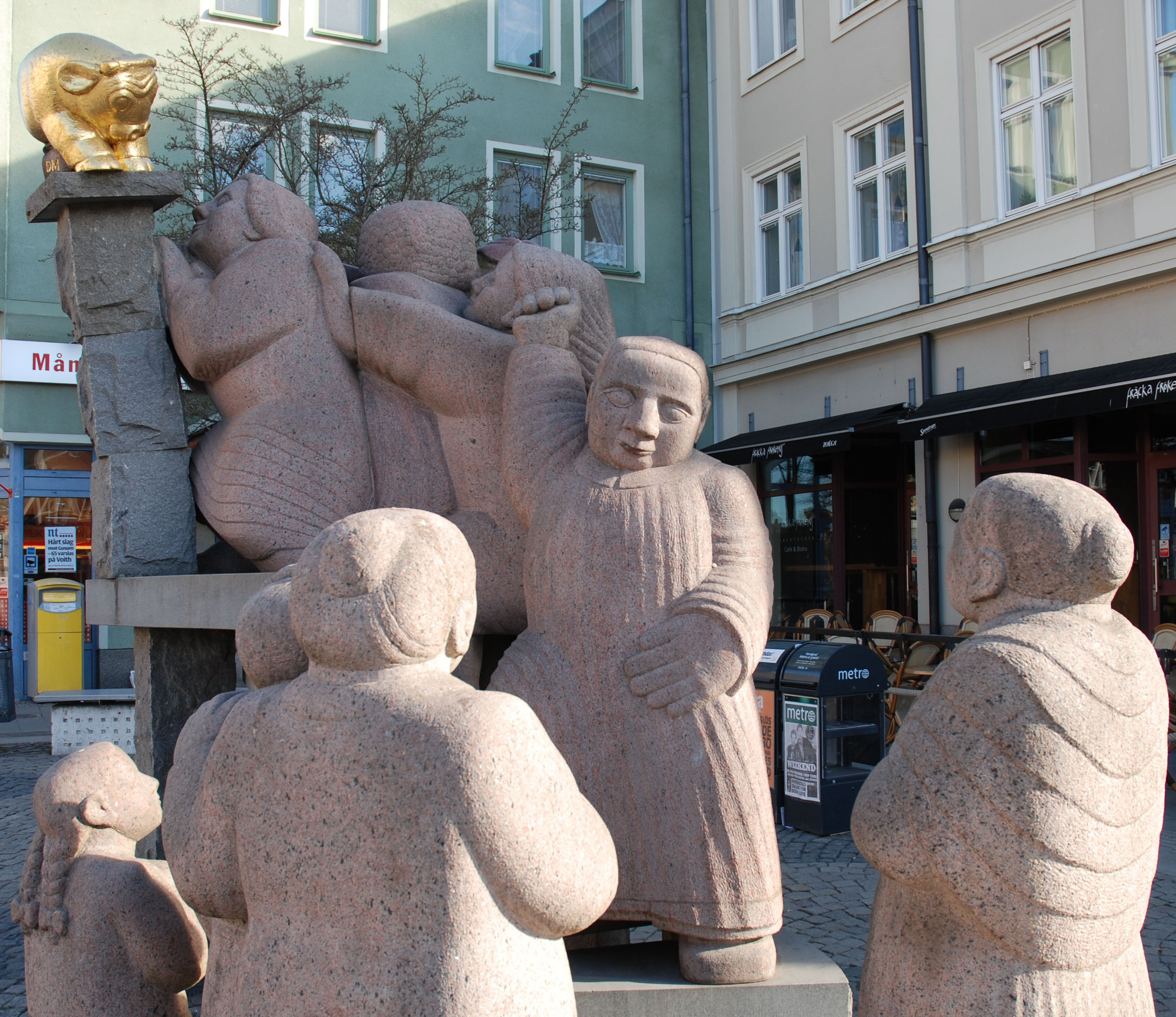 Kata Dahlström portraited in Vår enighets fana (The banner of our unity) by Pye Engström, Norrköping, Sweden